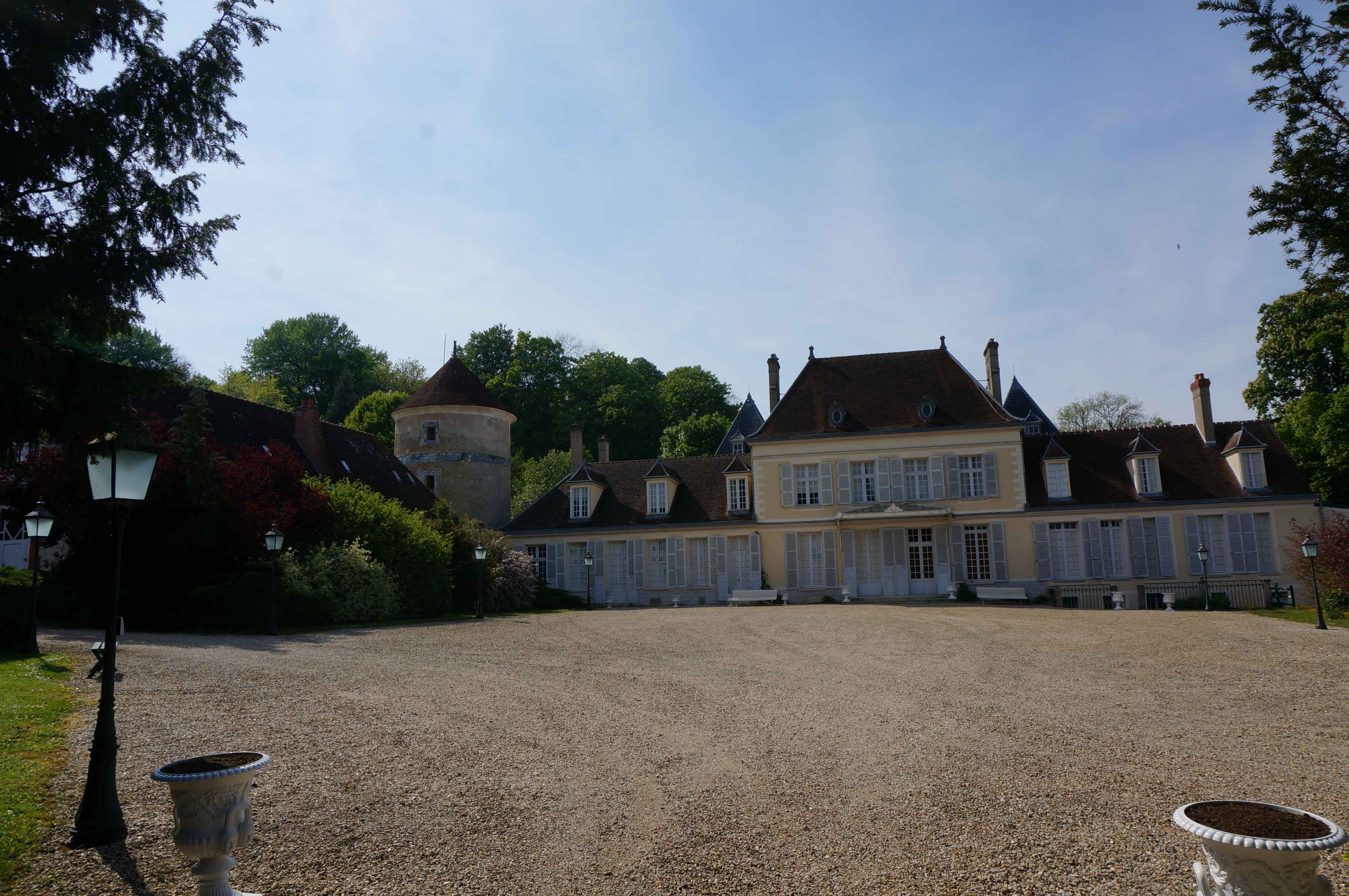 à Montfaucon.